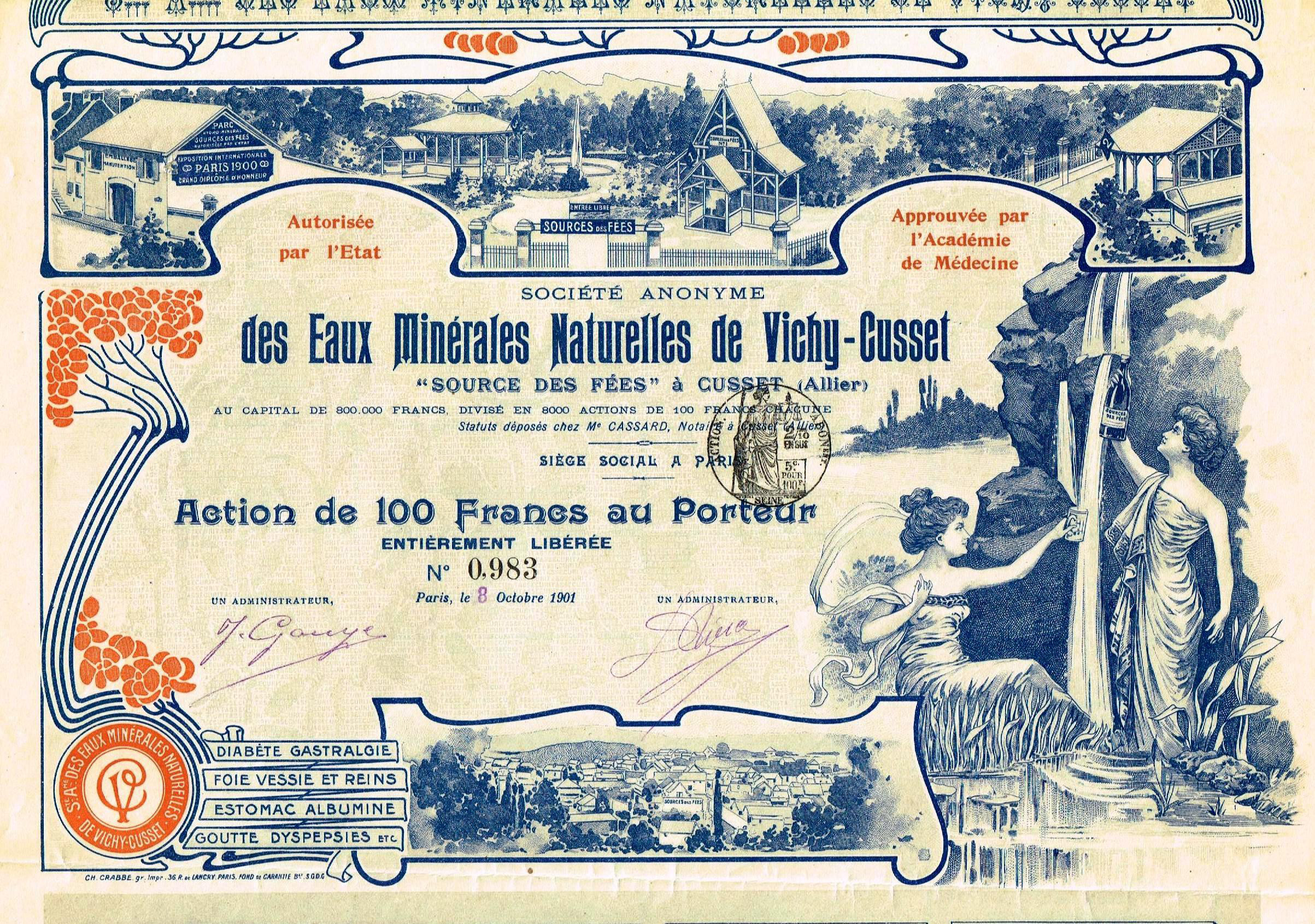 Share of the S.A. des Eaux Minérales Naturelles de Vichy-Cusset, issued 8. October 1901